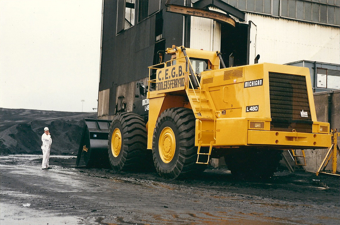 The arrival of the new Michigan Michigan 480L arrives to be used for handling coal. Capable of lifting twentyfive ton in one scoop.